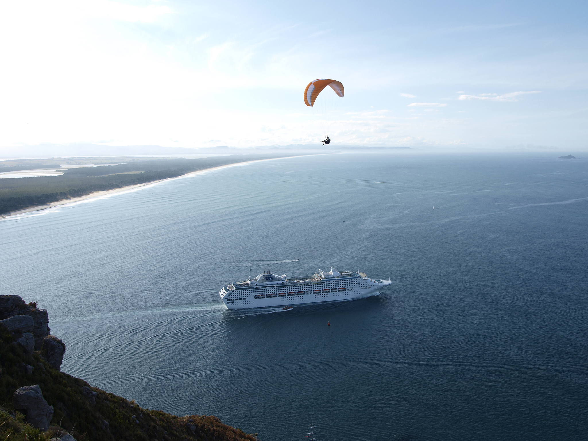 Paragliding at Tauranga Entrance and Mount Maunganui, Tauranga, Bay of Plenty, New Zealand